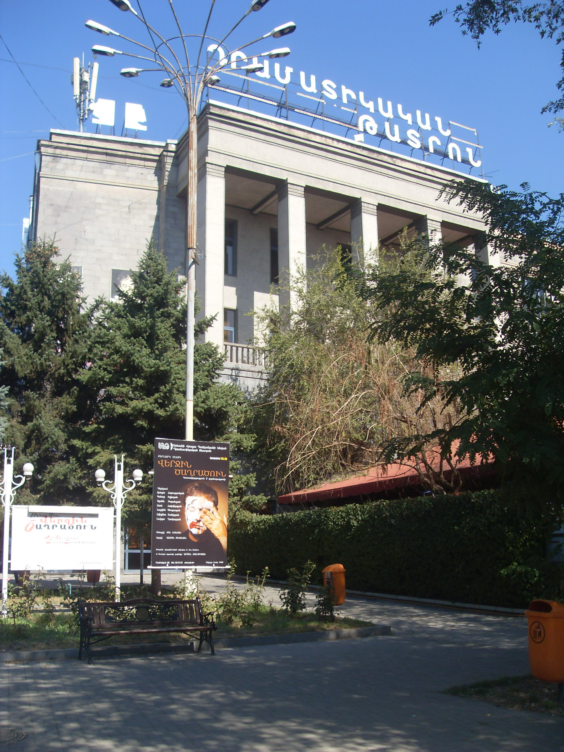 Dramatic theater of Yerevan, 1940, 1960, archit. S. Mazmanyan, H. Margaryan, S. Nersisyan 6/67